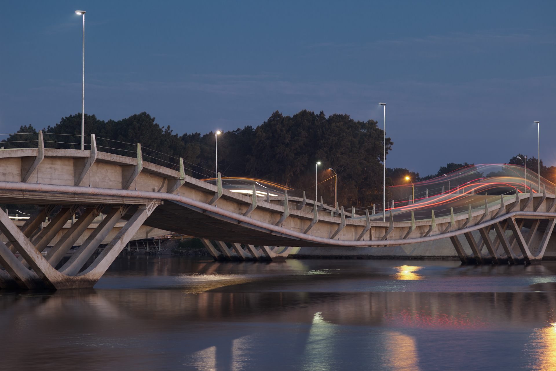 The first bridge was built by Leonel Viera in 1965 is one of the signature engineering works of Uruguay. In 2000 a clone bridge was built on its side to take care of the increased traffic during the summer season. Stressed ribbon bridge, 90 meters long.